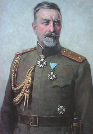 Bulgarian Liutenant-General and war hero